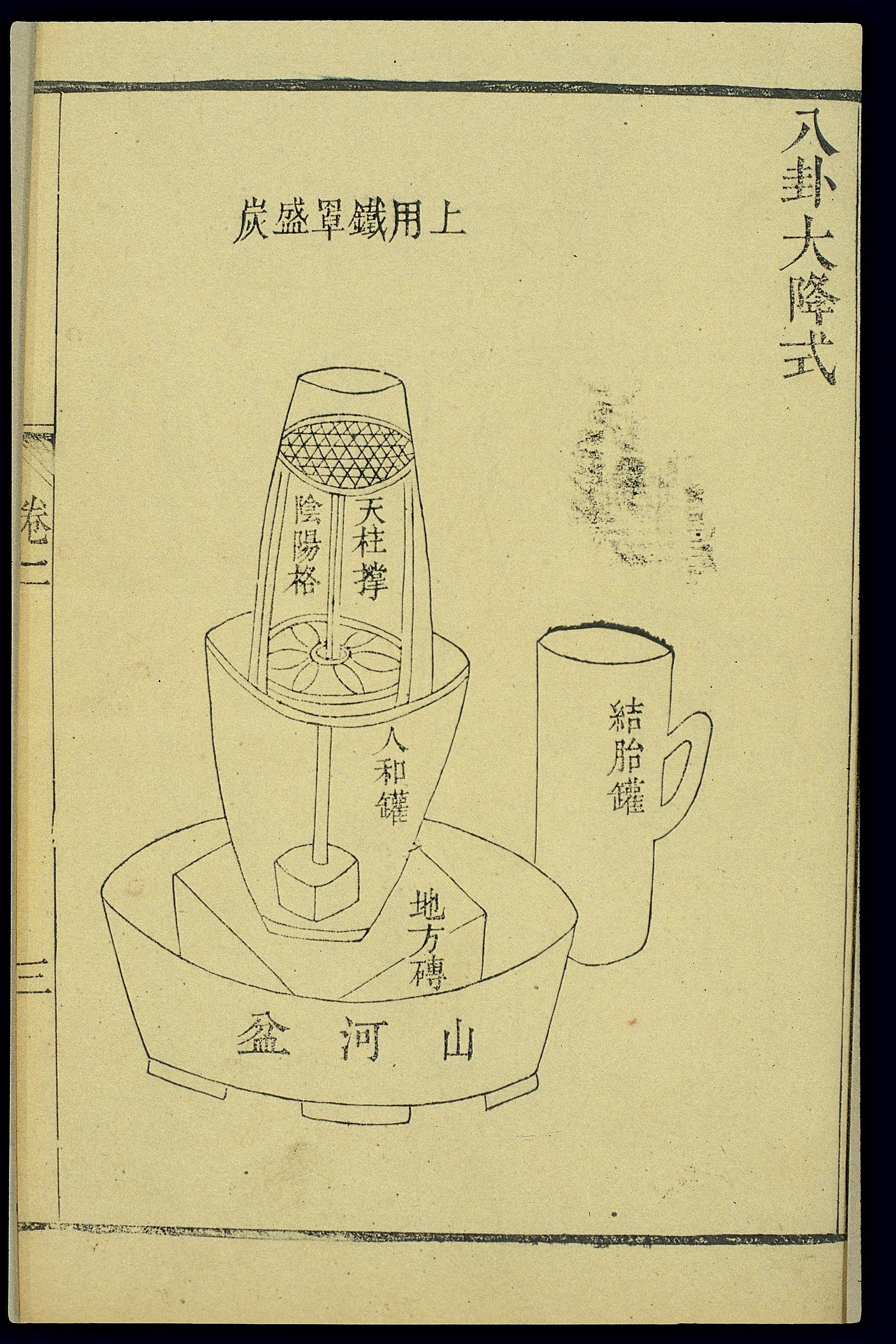 Woodblock illustration fromWaike tushuo(Pictorial Manual of External Medicine), published in 1856 (6th year of the Xianfeng reign period of the Qing dynasty). It shows implements for creating and refiningbagua da jiangdan(Eight-Trigram Grand Descending Elixir), with special attention given to the internal structure of the alchemical furnace. Eight-Trigram Grand Descending Elixir is a type of Hydrargyrum chloratum compositum - jiangdan or bai jiangdan -- obtained through the mixed crystallization of mercuric chloride (HgCl2) and mercurous chloride (Hg2Cl2), by heating mercury together with various minerals in the furnace. It was used to treat ulcers, fistulas,luoli(scrofula),xirou(polyps),wanxuan(chronic itchy skin condition), etc. Wellcome Images Keywords: Medical instrument; Medicine, Chinese Traditional; Alchemy; Elixir